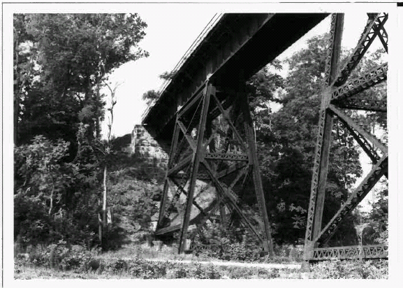 Looking southward at the Frederick county side masonry abutment, taken in 1991